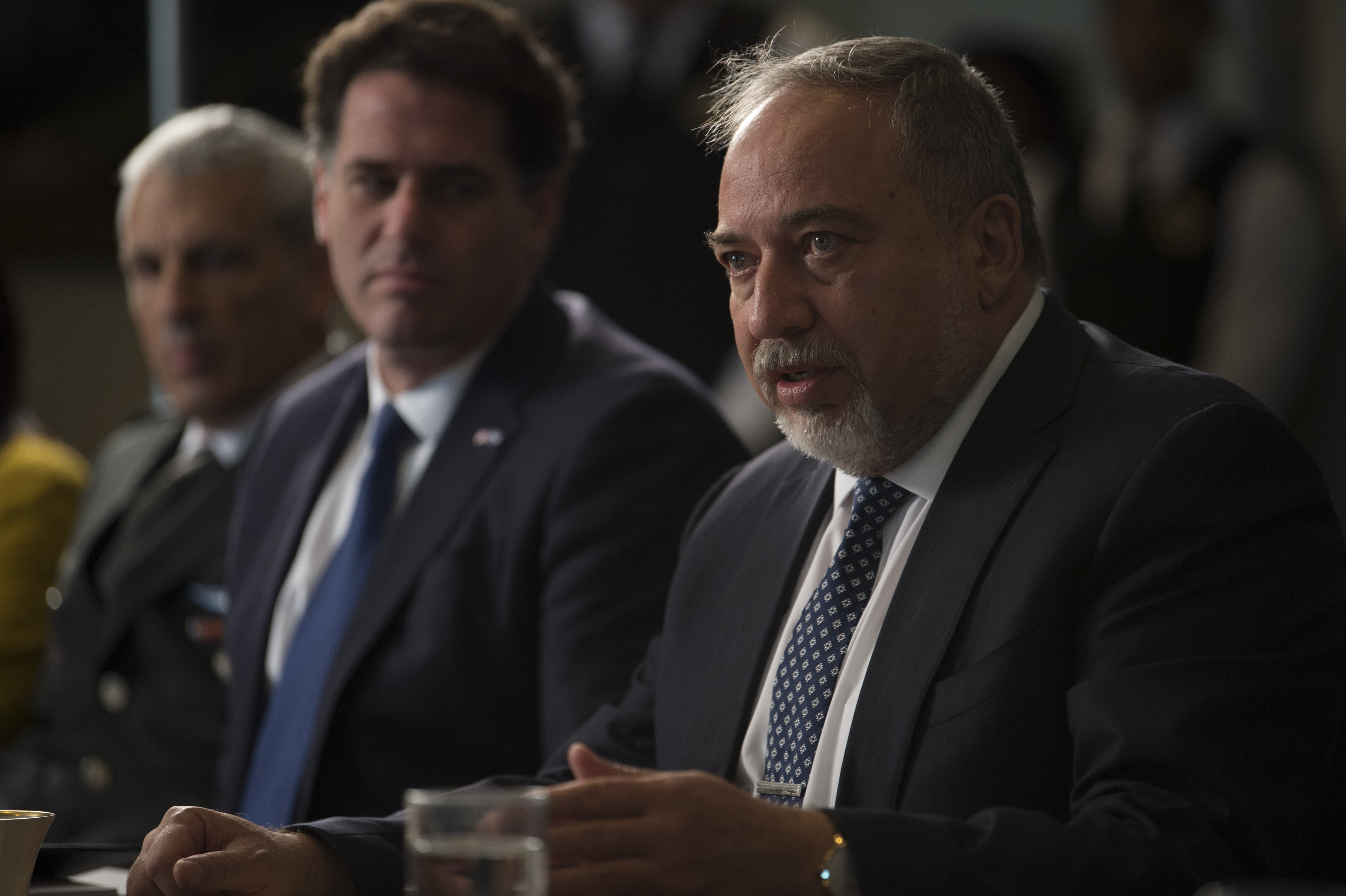 Israeli Defense Minister Avigdor Lieberman meets with Defense Secretary James N. Mattis at the Pentagon in Washington, D.C.